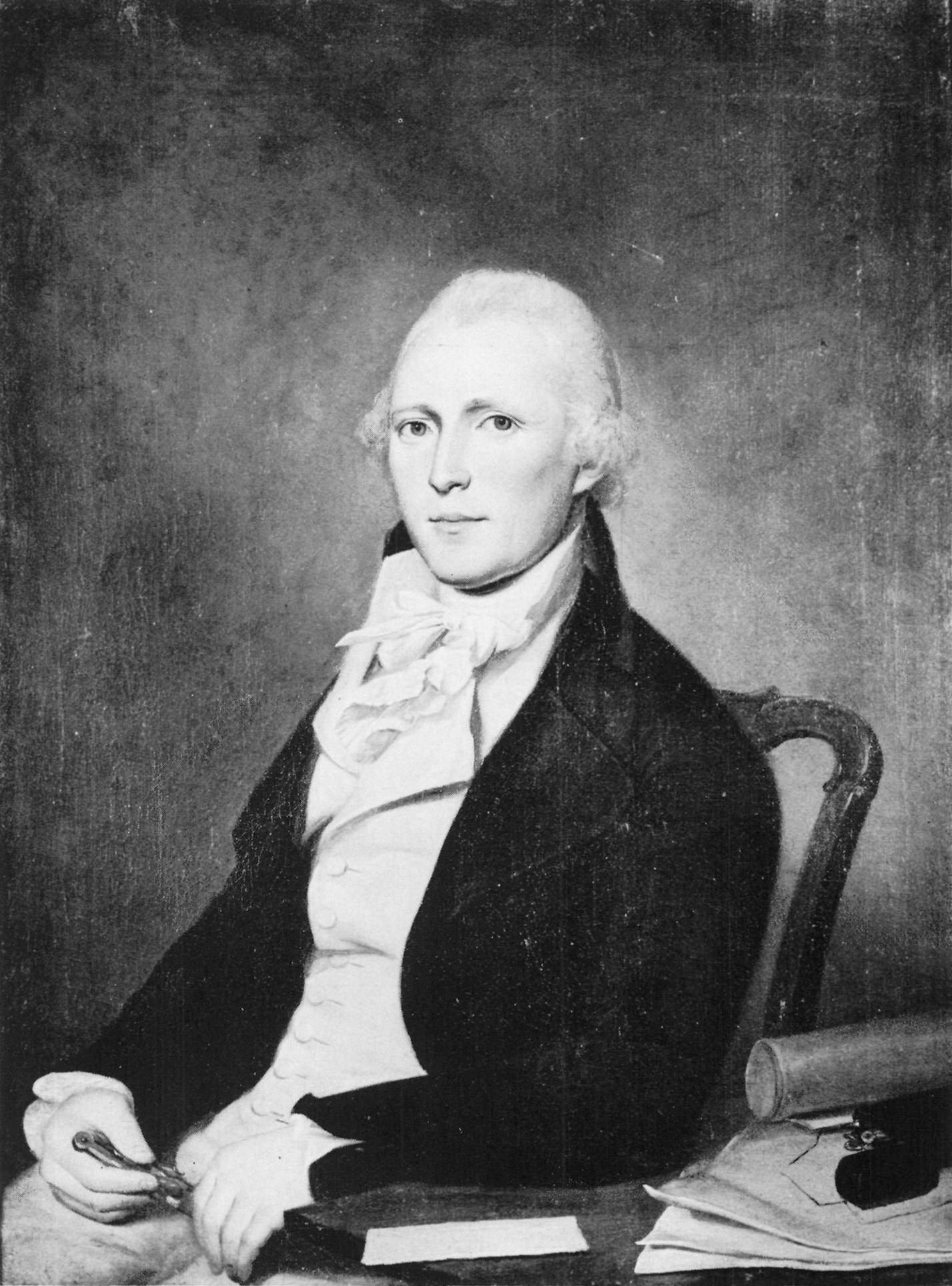 American winemaker and viticulturalist John Adlum. Portrait attributed to Charles Willson Peale, c. 1794; State Museum of Pennsylvania / Pennsylvania Historical and Museum Commission)